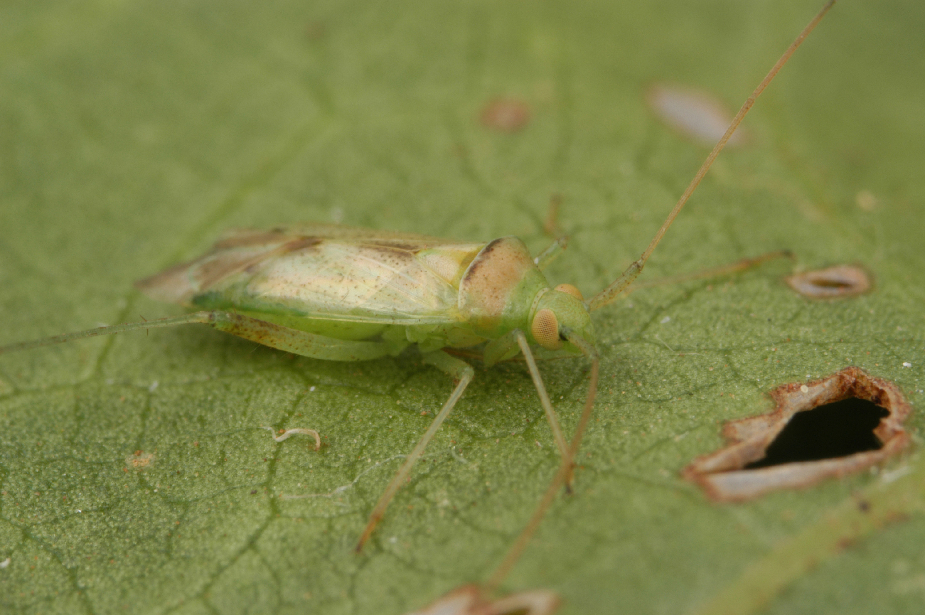 Green mirids, Creontiades dilutus, are native to Australia. They feed on many different plants, and are pests in some crops.